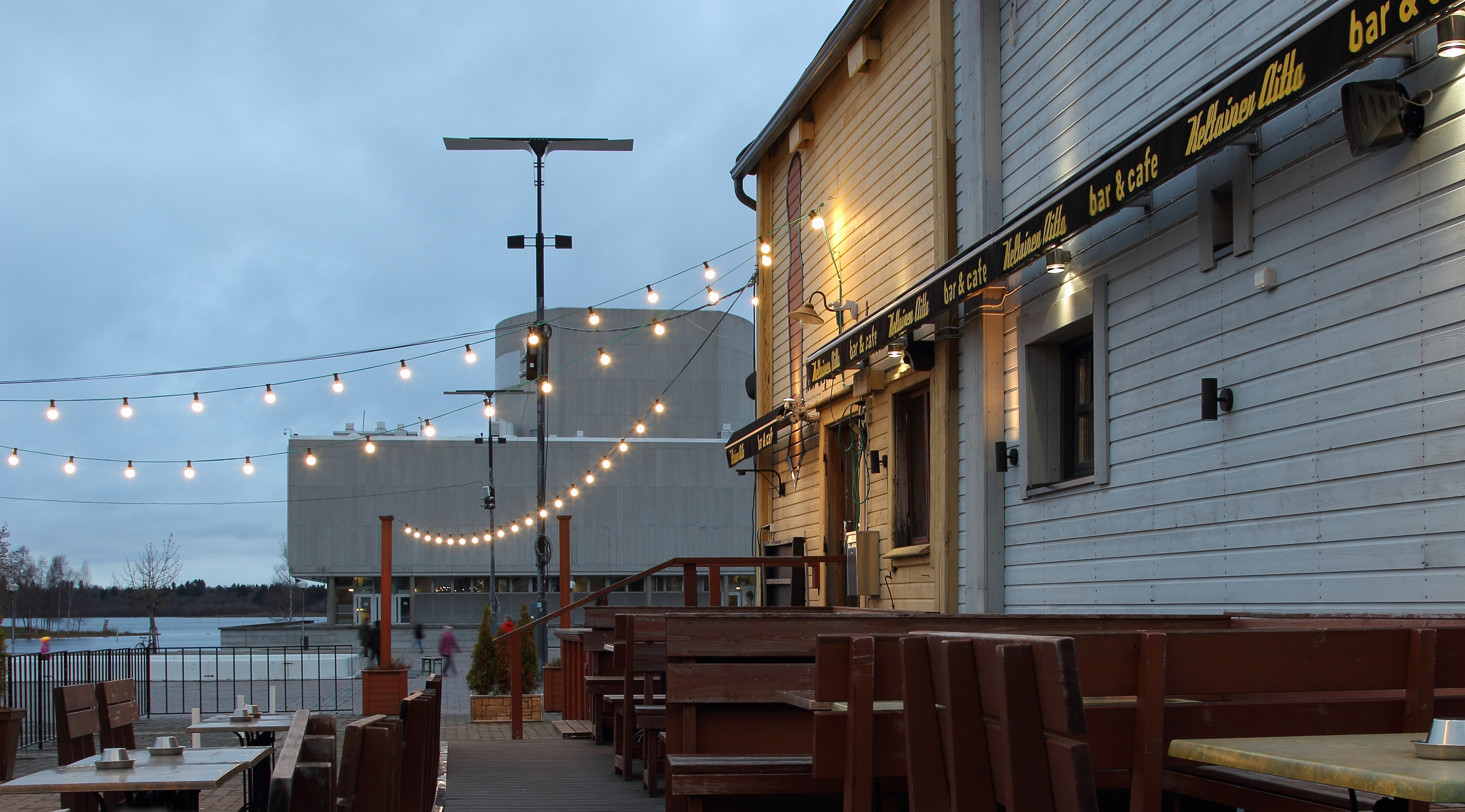 Terrace of a restaurant at the Oulu Market Square with Oulu Theatre in the background.